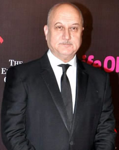 Anupam Kher at 20th Annual Life OK Screen Awards